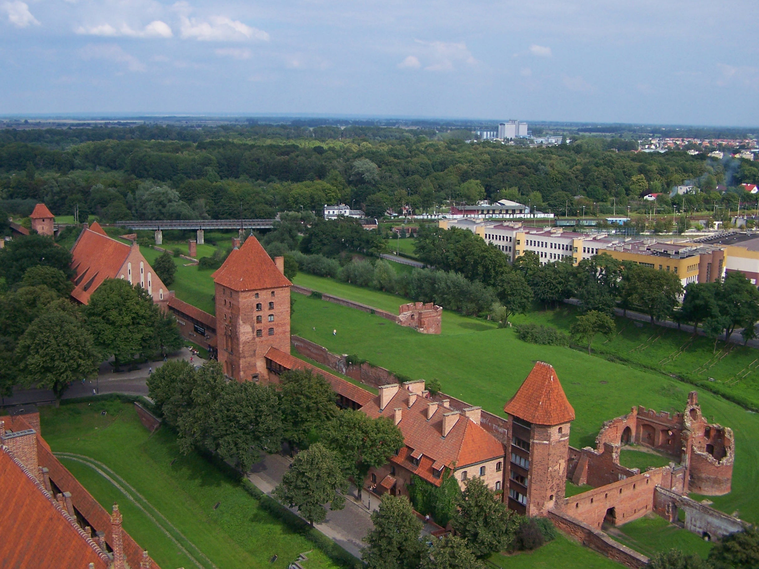 Malbork (Poland).